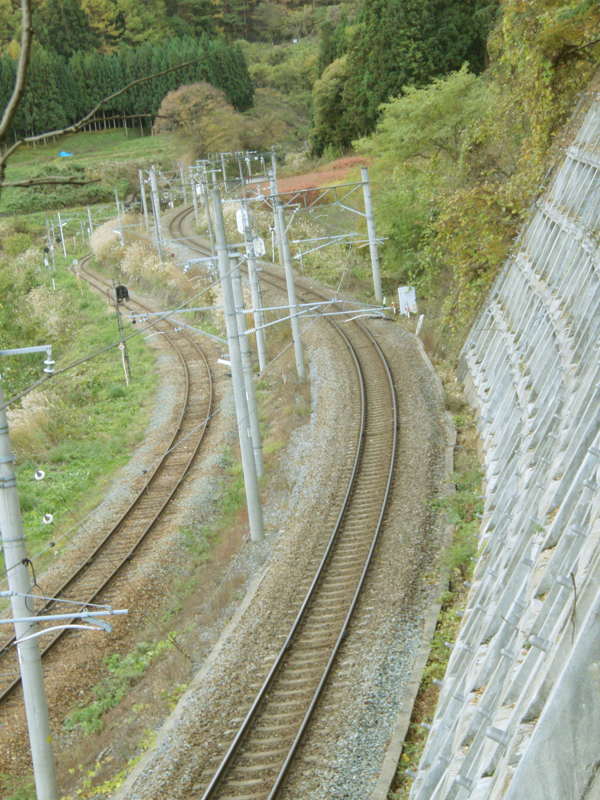 Passing loop along the main track of Shinonoi Line at Haneo Signal Base, view towards Kamuriki